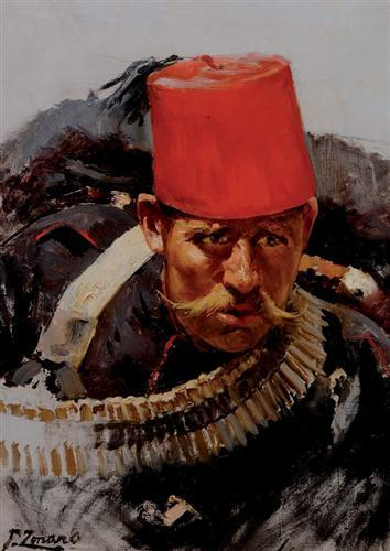 Ottoman Soldier during the Battle at Domokos.